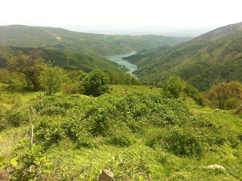 Natyra e Brezes